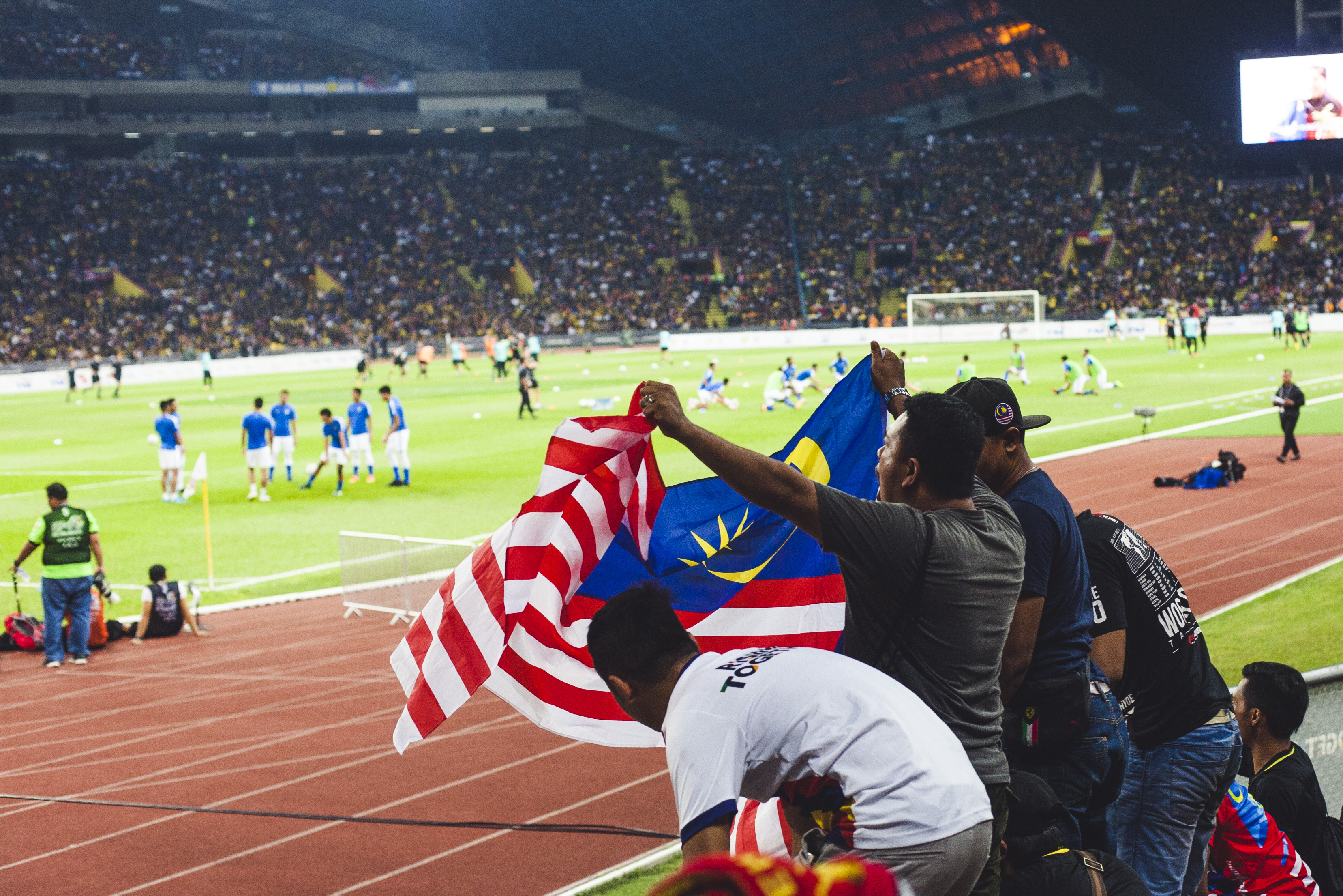 Malaysian fans waving their country's flag at the 2017 Southeast Asian Games men's football final.